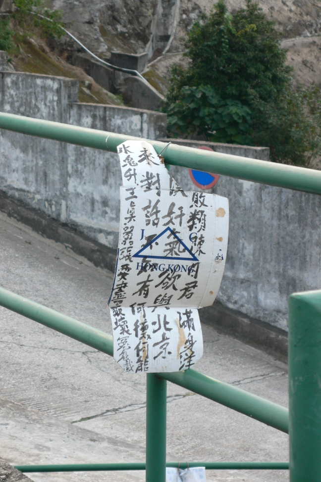 A piece of cardboard hung by an unknown person who hates Joseph Zen Ze-Kiun, the cardinal of Hong Kong, saying that he is a traitor. This is taken in Holy Cross Catholic Cemetry in Hong Kong